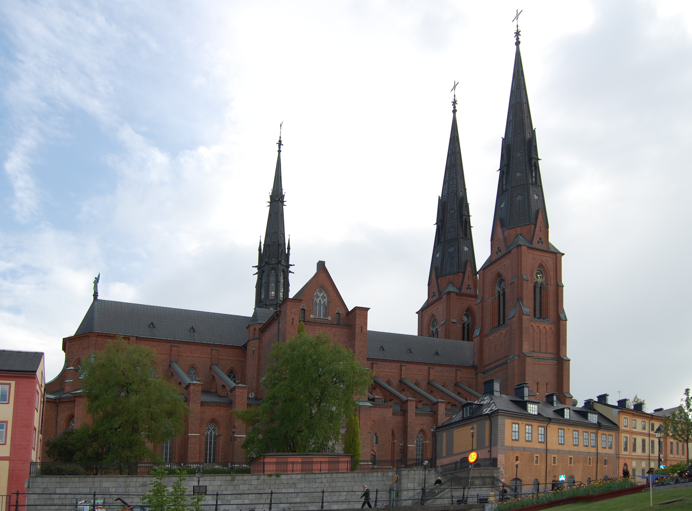 Uppsala Cathedral